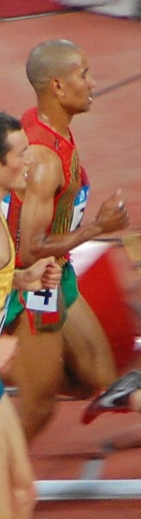 Abdelaziz El Idrissi Ennaji, 2008 Summer Olympics - Men's 5000m Round 1 - Heat 3